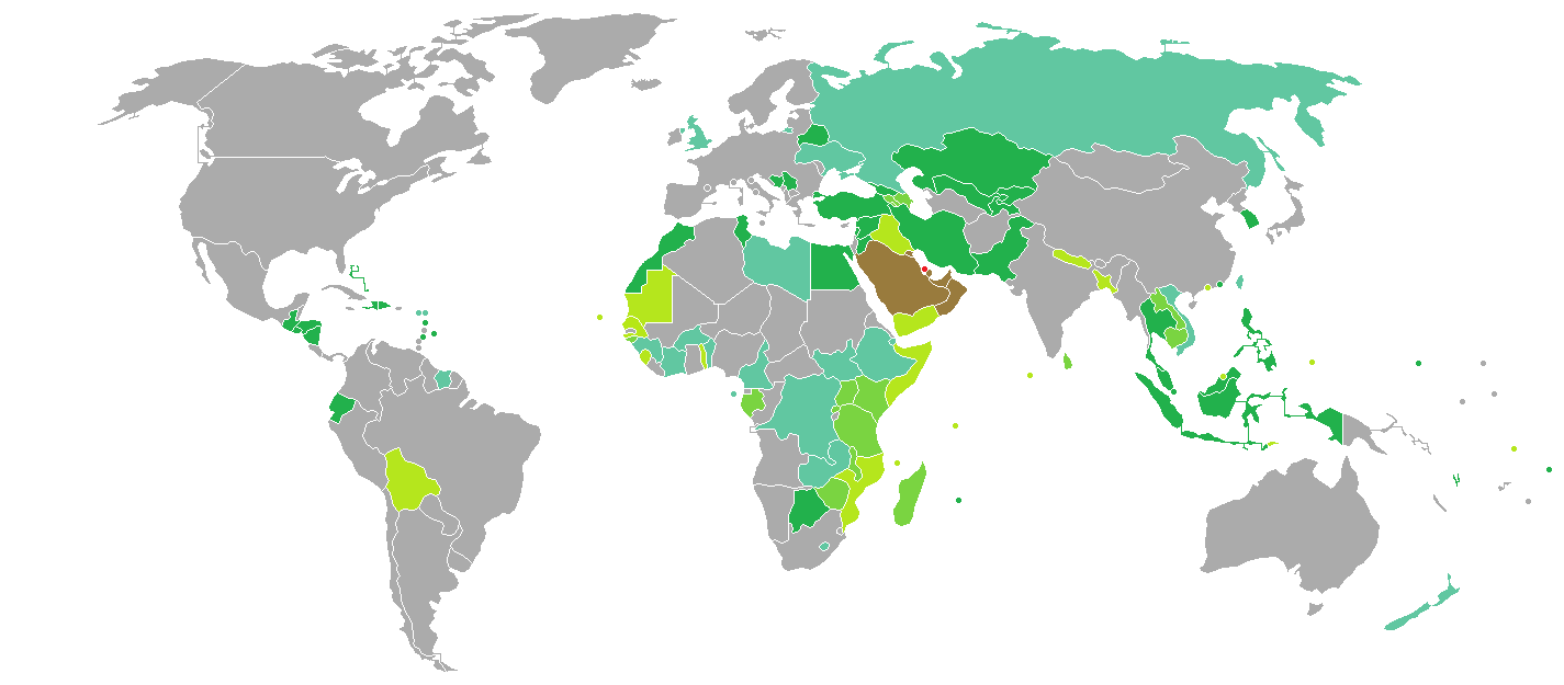 Visa requirements for Bahraini citizens Bahraini Freedom of movement Visa free access Visa on arrival eVisa Visa available both on arrival or online Visa required